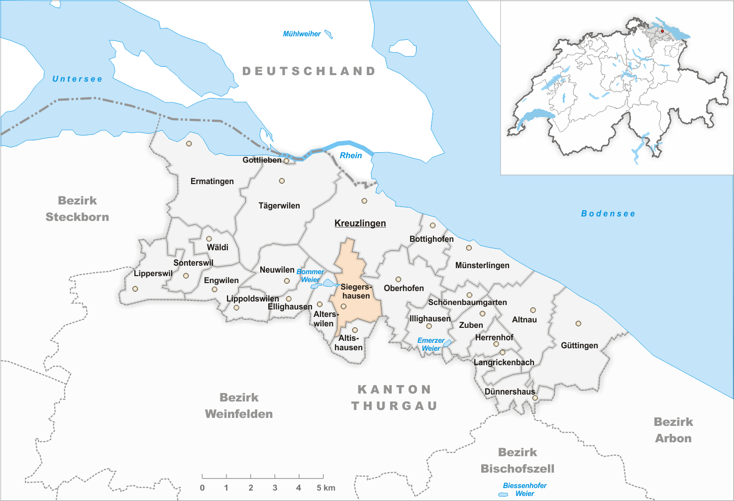 Municipality Siegershausen